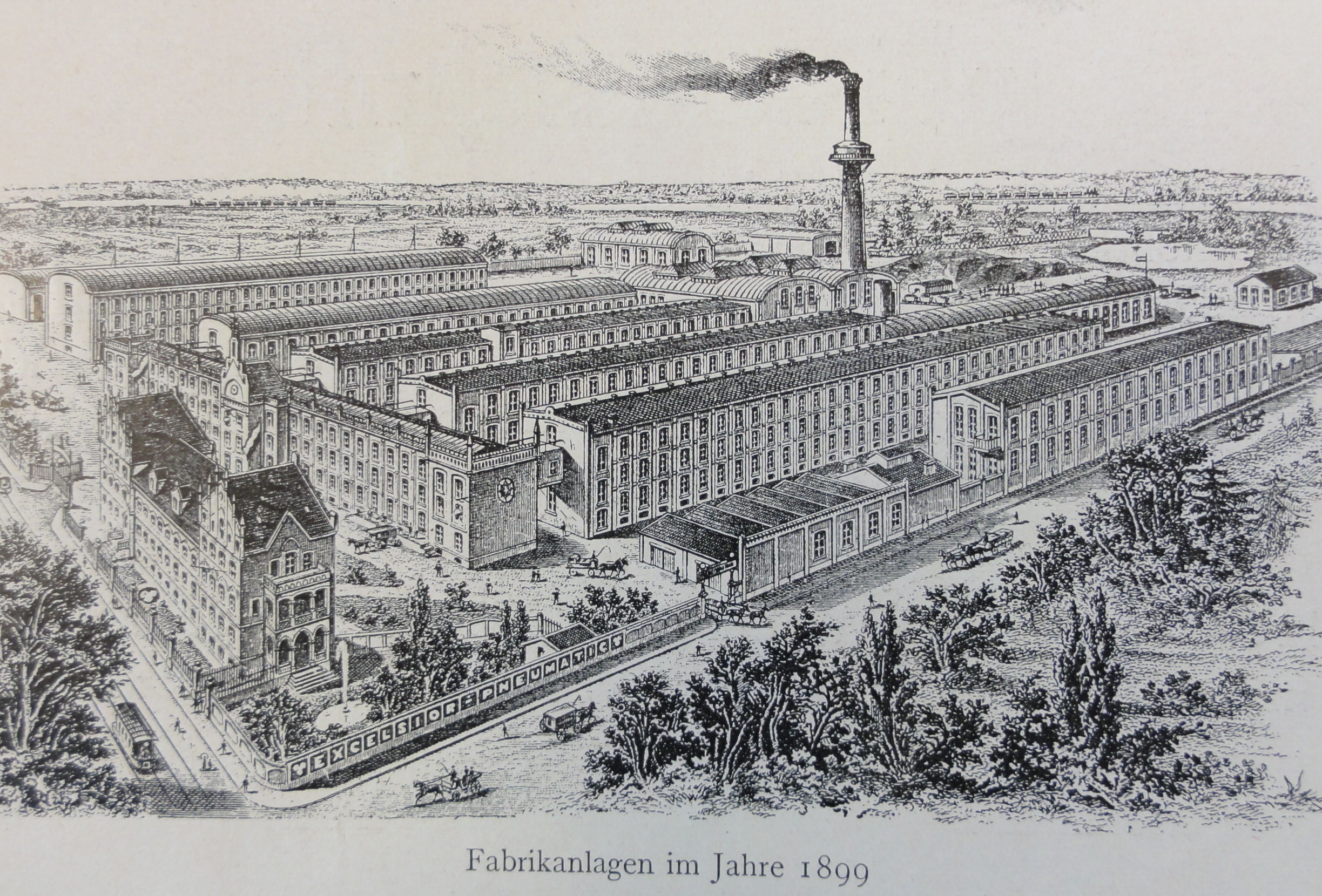 Hannover Gummikamm Werk Limmer 1899, new factory site was built in the previous years